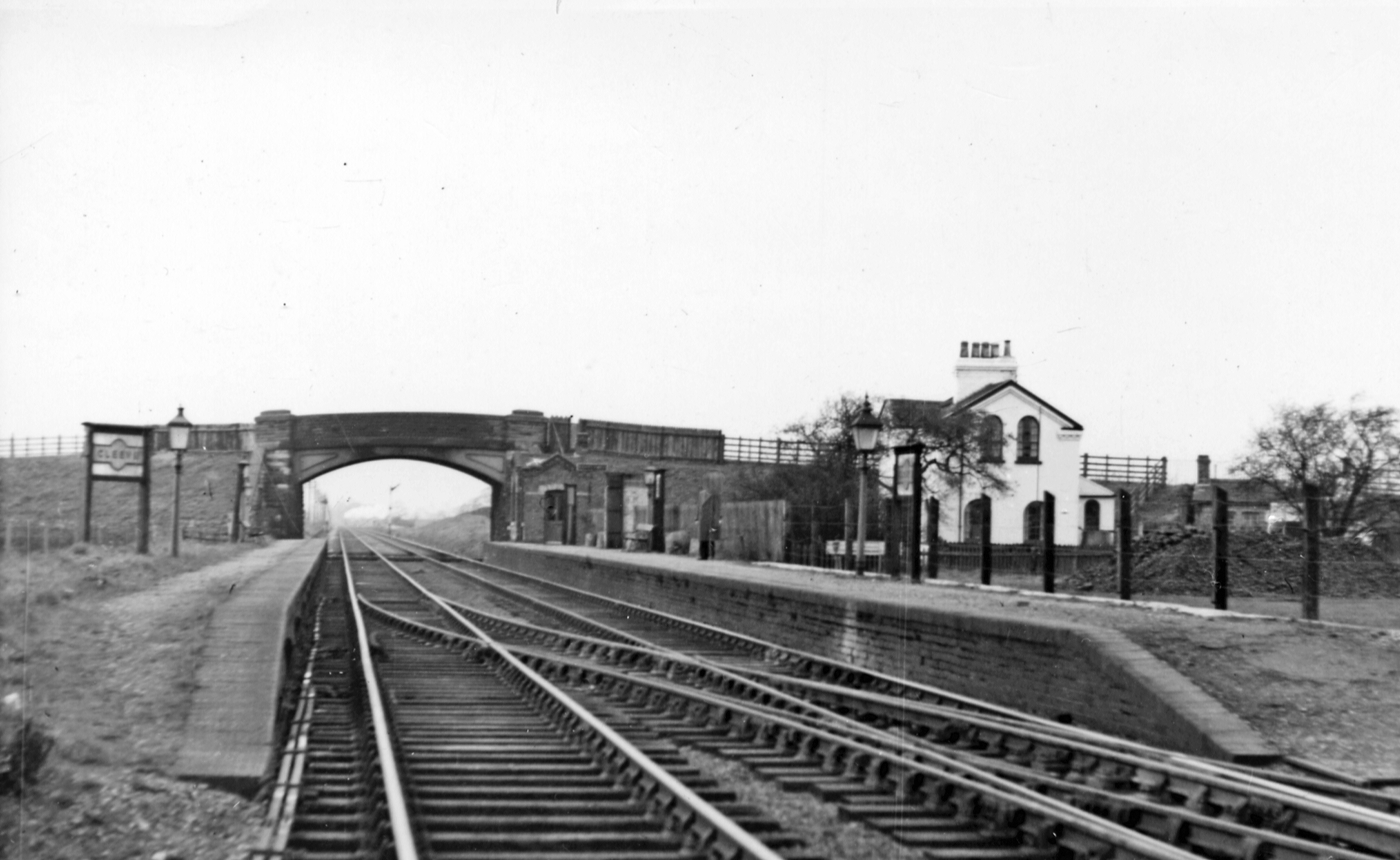 Cleeve station, 1950View northward, towards Worcester, Birmingham etc. on the ex-Midland main line, Derby - Birmingham - Gloucester - Bristol, on 18/2/50: the day the station closed to passengers; it was closed completely shortly afterwards (4/4/50).